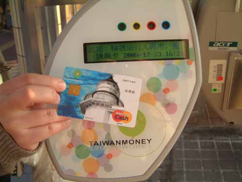 Using a TaiwanMoney ticket checker smartcard reader. It is in use in Kaohsiung City.